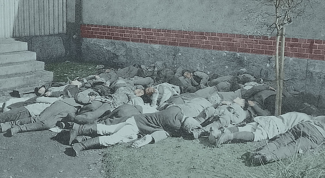 Executed red guard solders in Tampere, Finland after the battle of Tampere